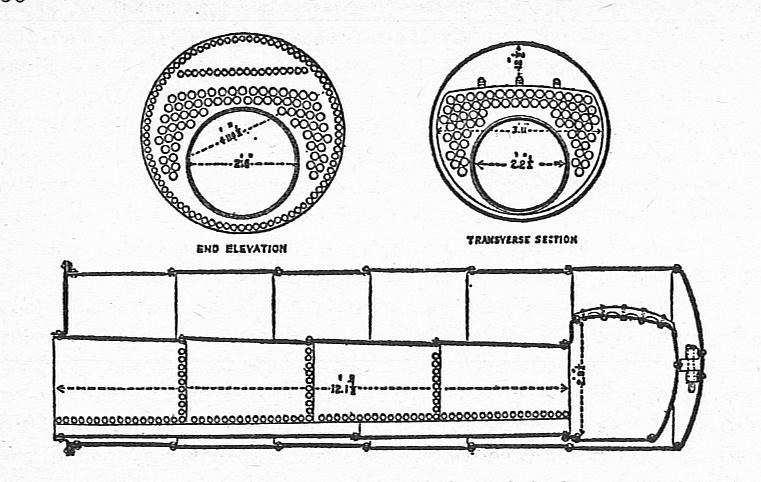 Transverse section of the boiler of Hackworth's locomotive 'Wilberforce' , 1830